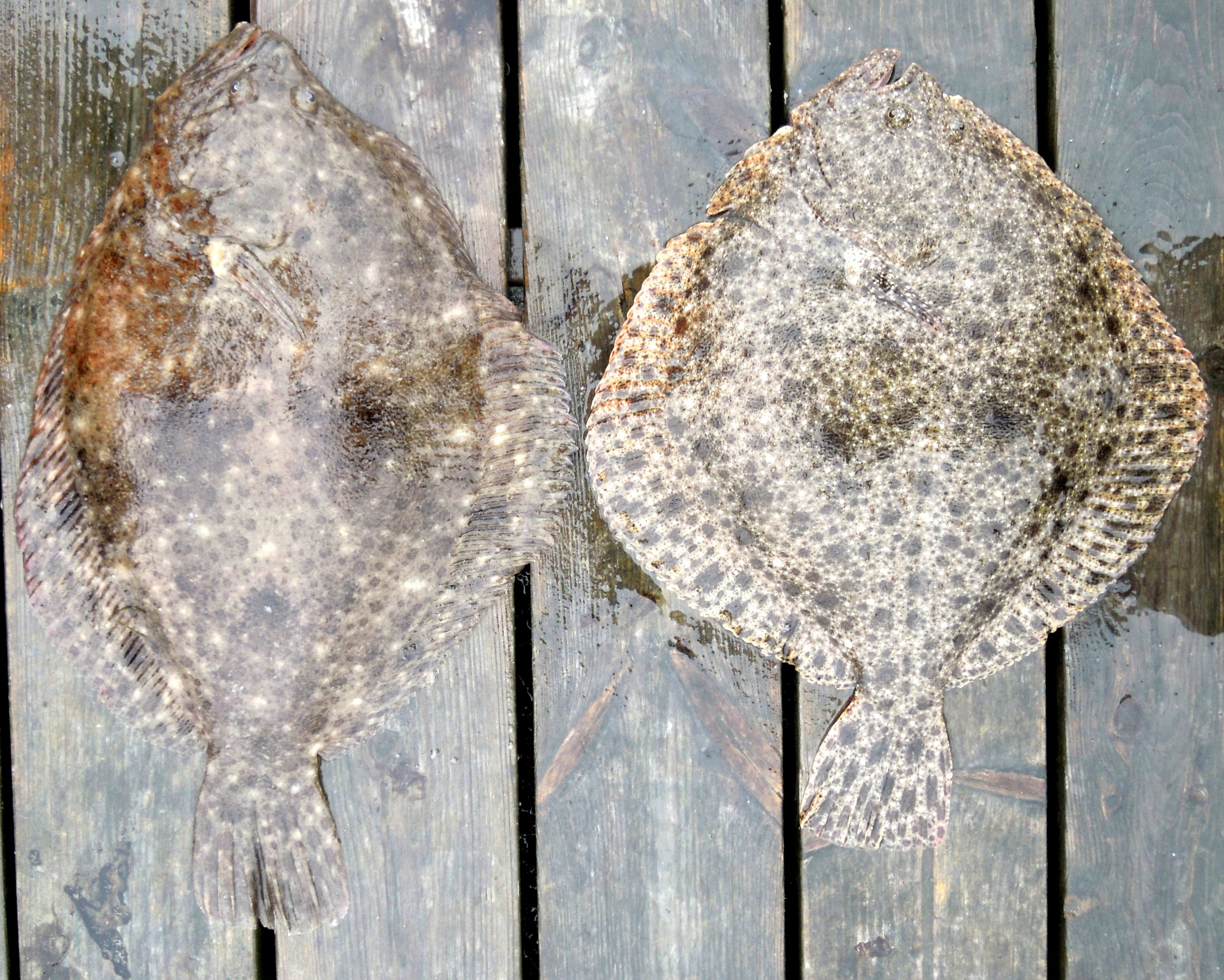 Scophthalmidae a family of flatfish. Scophthalmus rhombus to the left. Psetta maxima to the right. Norway. You are free to use this picture outside Wikipedia (see license), as long as you write: Photo: Arnstein Rønning